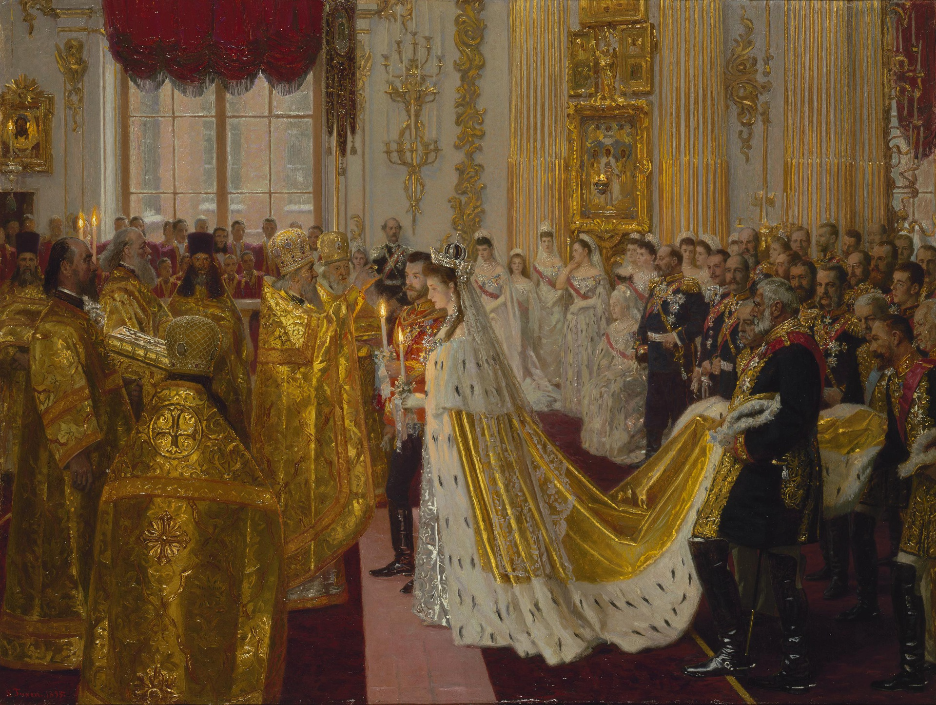 The Marriage of Nicholas II, Tsar of Russia, 26th November 1894 Princess Alix of Hesse (1872-1918) was Queen Victoria’s granddaughter. She married Nicholas II, Tsar of Russia, on 26 November 1894 in the Imperial Chapel of the Winter Palace. Here the bridegroom and bride are holding lighted candles and the Metropolitan Archbishop of St Petersburg makes the sign of the cross before them with their engagement rings. The Tsar is in Hussar uniform and the bride wears a diamond crown and the Imperial gold-embroidered mantle lined with ermine. The orange blossom was brought from the Imperial conservatory in Warsaw. Tuxen attended the ceremony and recorded how he was intoxicated by the beauty of the scene, by the singing, the richness of the colours, the light, the golden fabrics and the loveliness of the bride. It is interesting to compare this painting with Nicolas Chevalier’s painting of the marriage of the Tsar’s aunt in the same chapel 20 years earlier (RCIN 404476[1]). Signed and dated: L. Tuxen 1895-6.